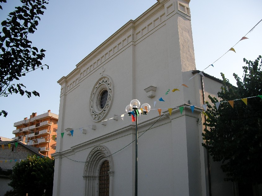 The church of Saint Reparata to Casoli